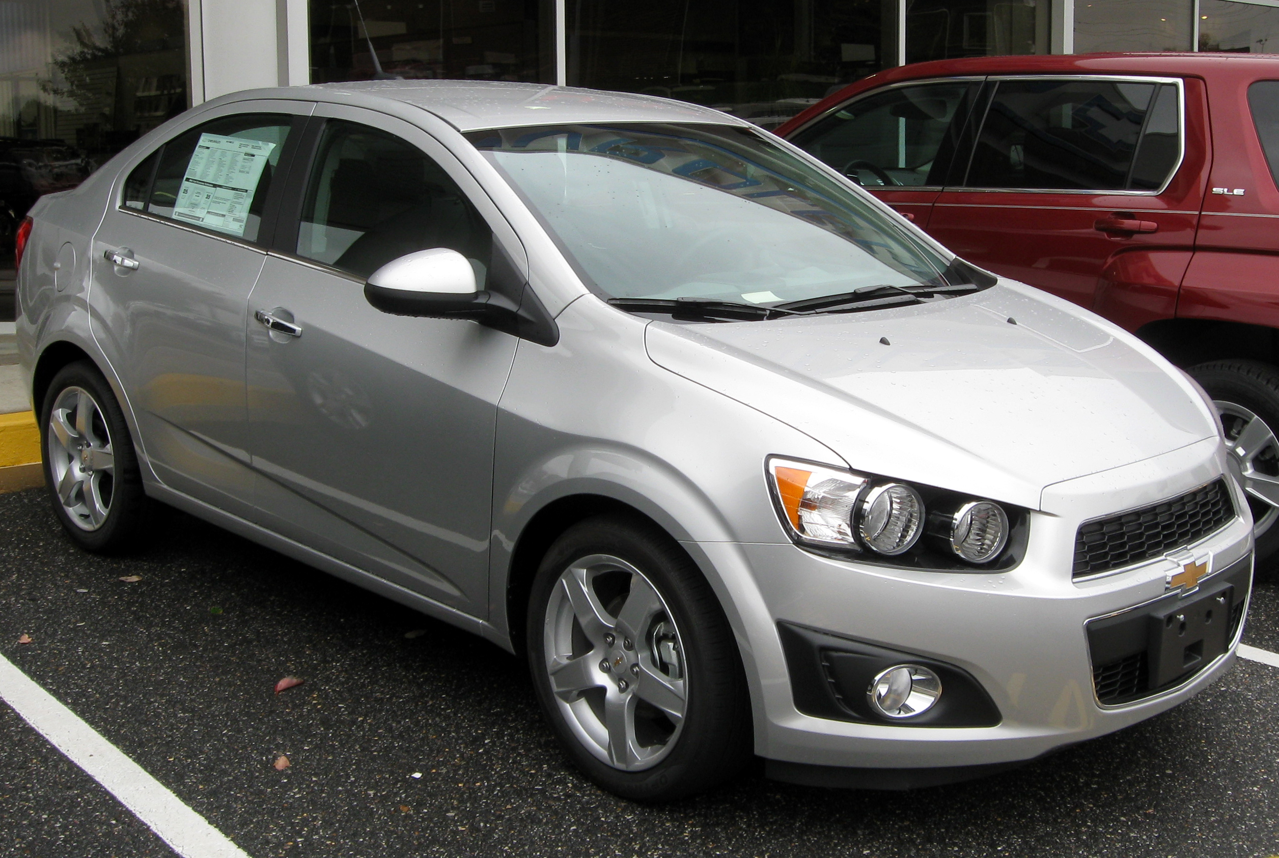 2012 Chevrolet Sonic photographed in Clarksville, Maryland, USA.